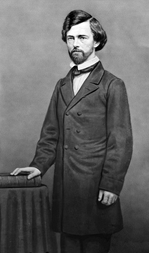 Isaac Stevens. Library of Congress description: "Hon. Isaac Ingalls Stevens"